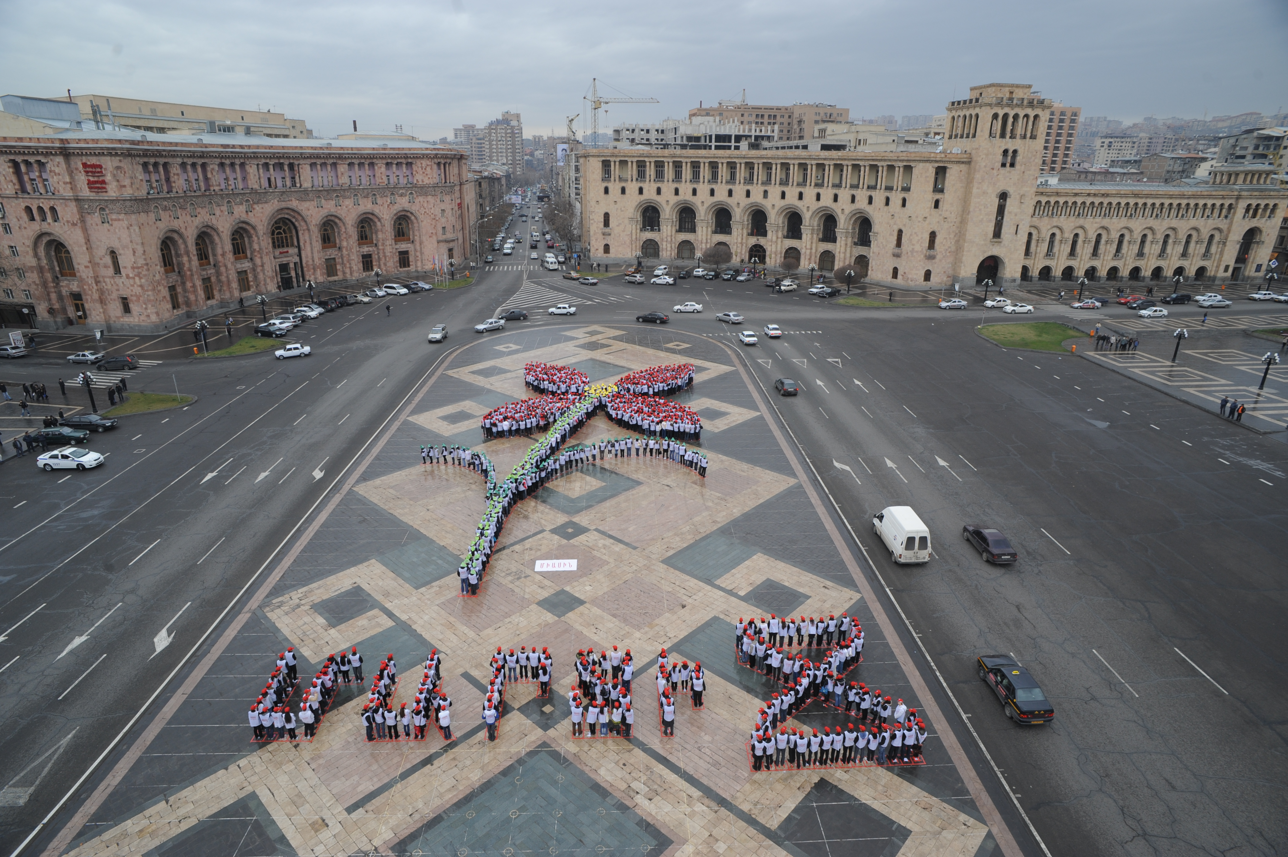 Flashmob performed on March 8 with a youth movement Miasin․ Armenia Միասին երիտասարդական շարժման իրականացրած ֆլեշմոբը Հայաստանում Մարտի 8-ի առթիվ